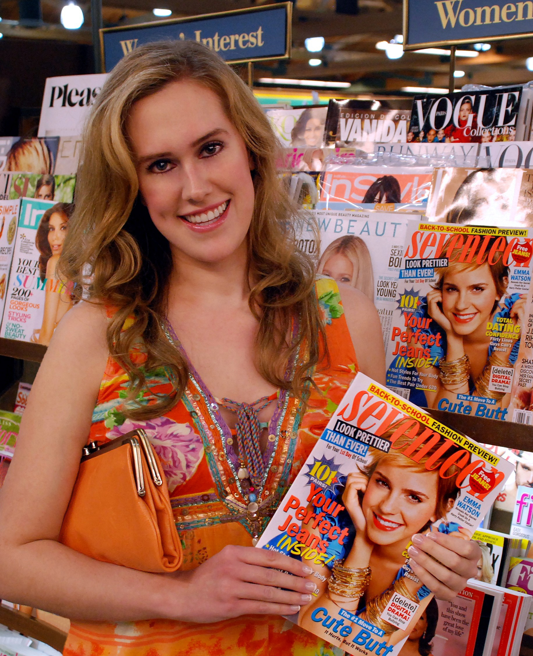 Katherine Cahoon Holding Seventeen Magazine